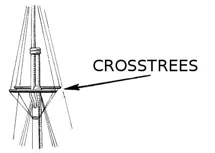 line art example of crosstrees.